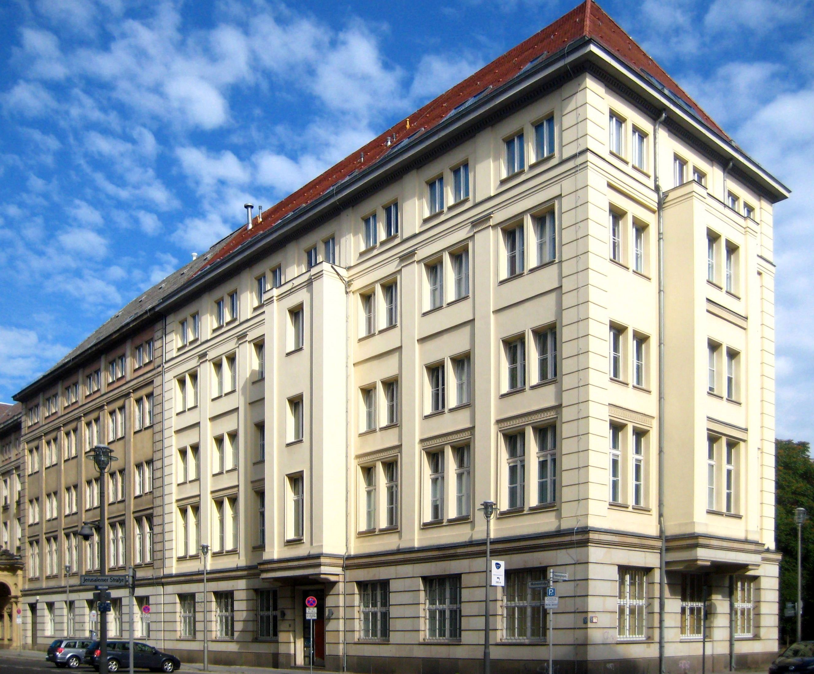 The former commercial building Zum Hausvoigt at Hausvogteiplatz No. 8-9 in Berlin-Mitte, here the facade on Mohrenstraße, opposite the German Federal Justice Ministry. The house was built 1889 to 1890 by Otto March for several textile companies. The facade was reconstructed in a simplefied version after WWII. In the basement of the house, the vault of the former moat of the Berlin citadel has been preserved. The building is now seat of the Weierstrass Institute for Applied Analysis and Stochastics. It has been designated as a historic landmark.